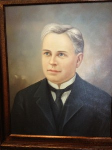 This is the president of Louisiana Tech University, James B. Aswell, later a U.S. representative, taken c. 1904; displayed at Ropp Center at Louisiana Tech